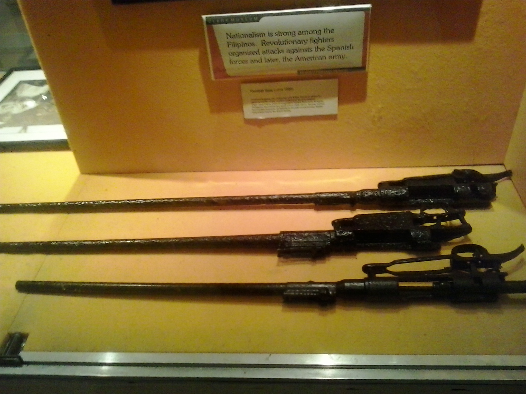 Pictured here are the remains of various rifles used by the Philippine Revolutionary Army during the Philippine Revolution and the Philippine-American War. This photo was taken in the Clark Museum, Clark Special Economic Zone.